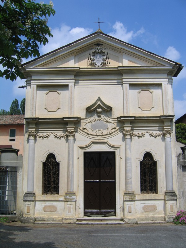 Rustignè di Oderzo (Treviso, Veneto, Italy). San Gaetano's church into Villa Ottoboni.